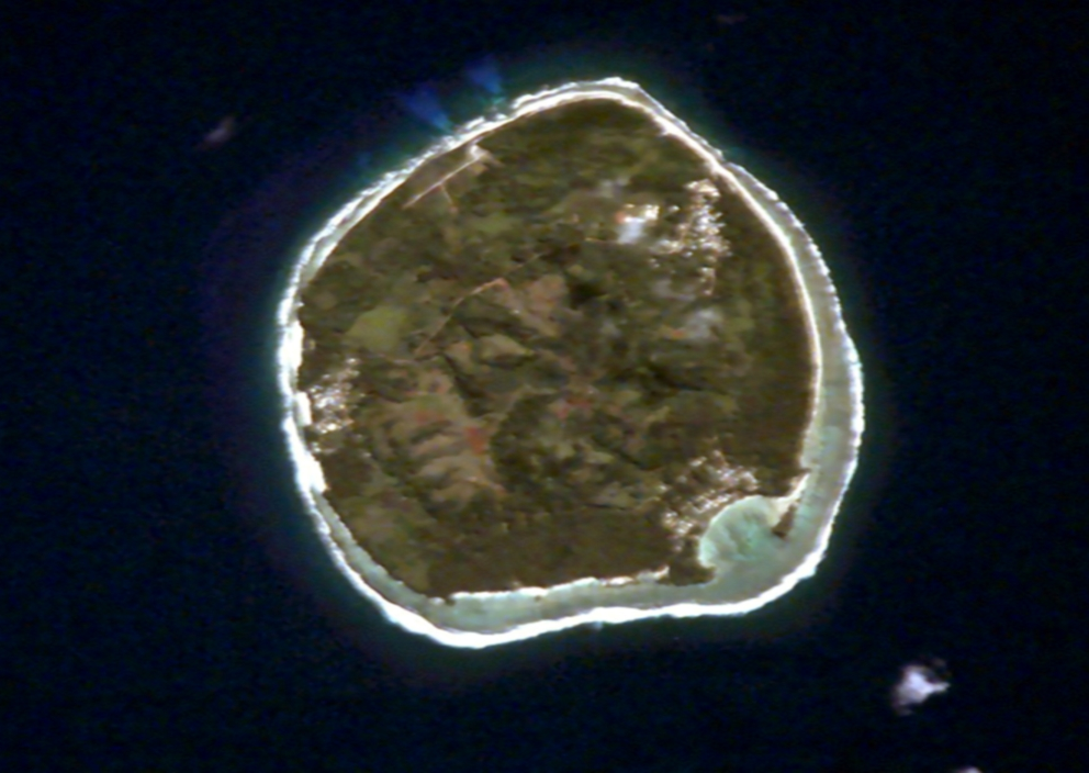 NASA astronaut image of Rimatara, Austral Islands, French Polynesia. The top-left corner points to the South.